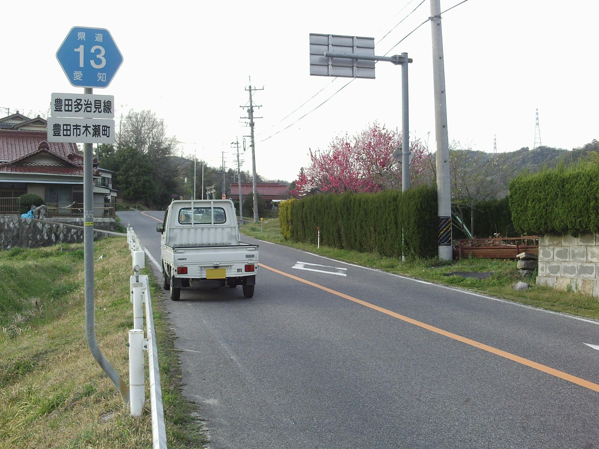 Aichi prefectural road No.13 in Kisecho, Toyota, Aichi.